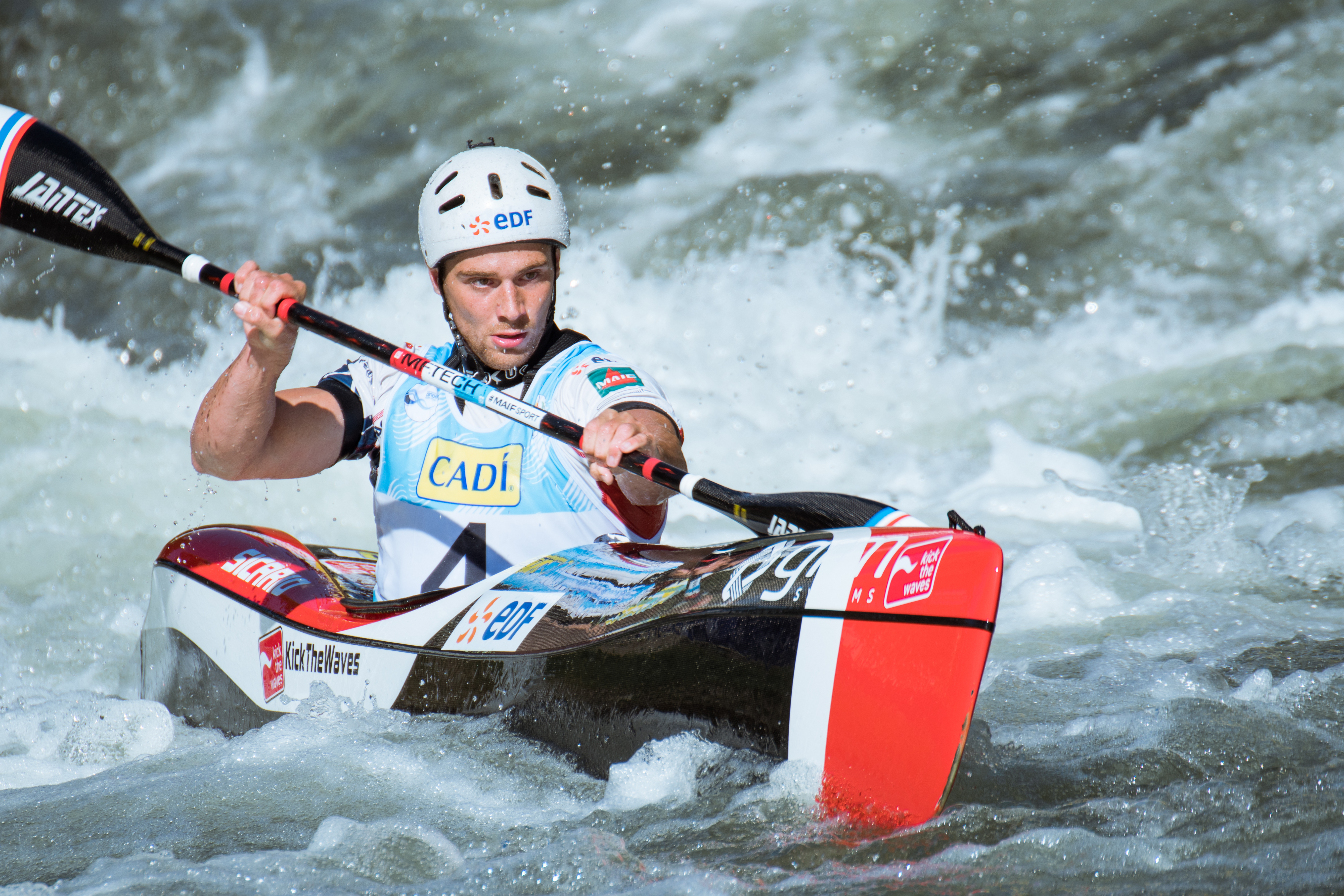 Maxence Barouh during the 2019 Canoe Wildwater World Championships in La Seu d'Urgell, Spain.